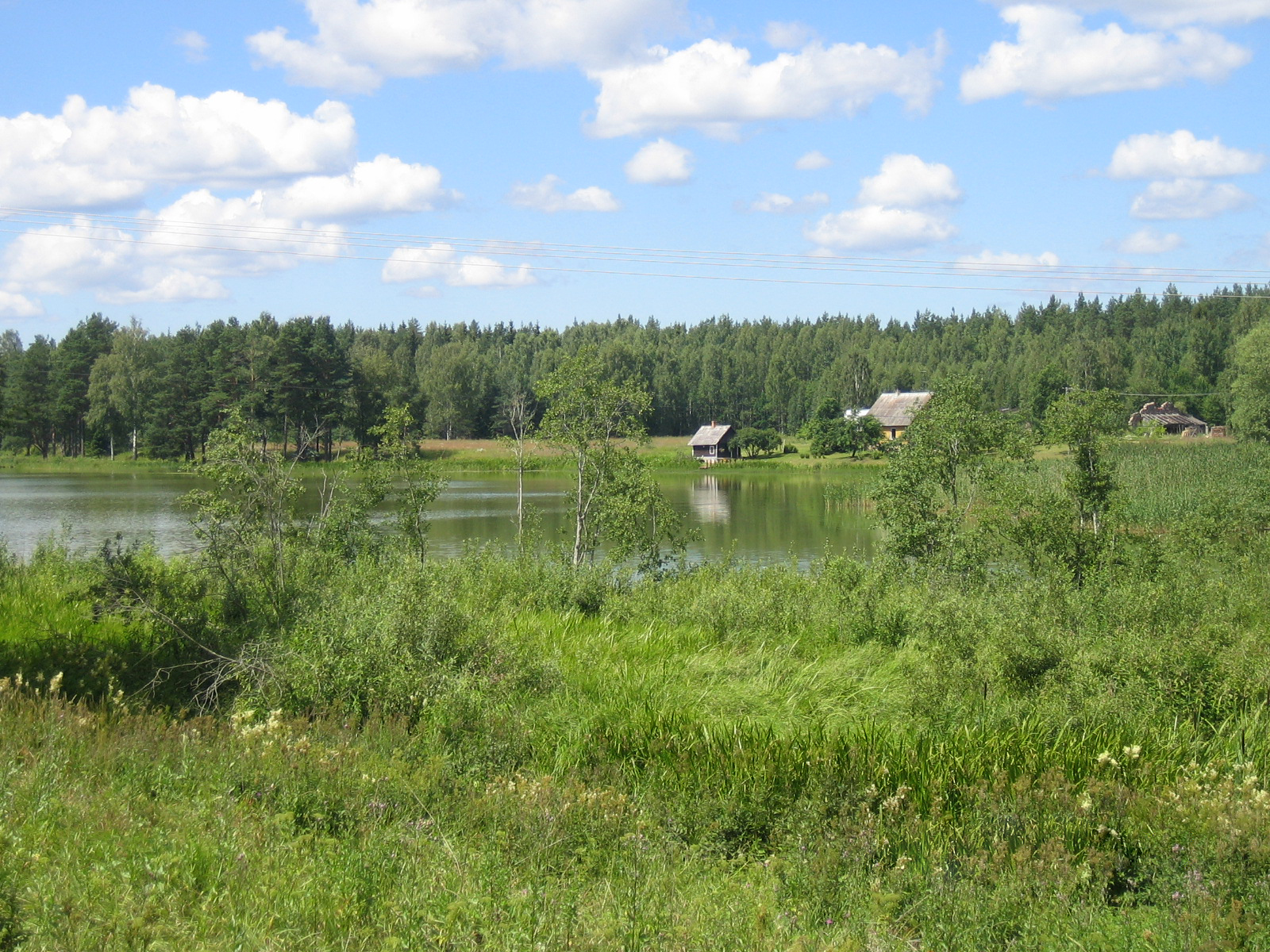 Lake Orava